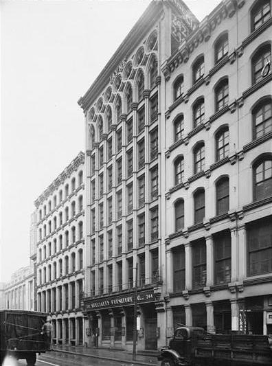 Dr. David Jayne Building, 242-44 Chestnut St., Philadelphia, PA. (1849-50, rebuilt after fire 1872, demolished 1957 to make way for Independence National Historical Park)Architect: William J. Johnston. Some architectural historians consider this 129-foot-tall Venetian Gothic building the first skyscraper built in the United States.